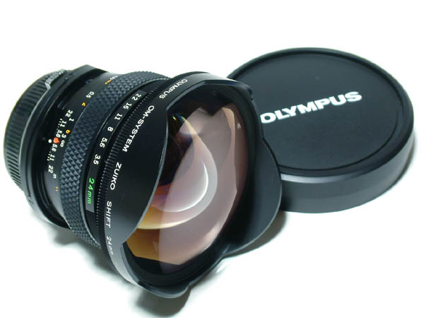 OM Zuiko Shift 24mmF3.5